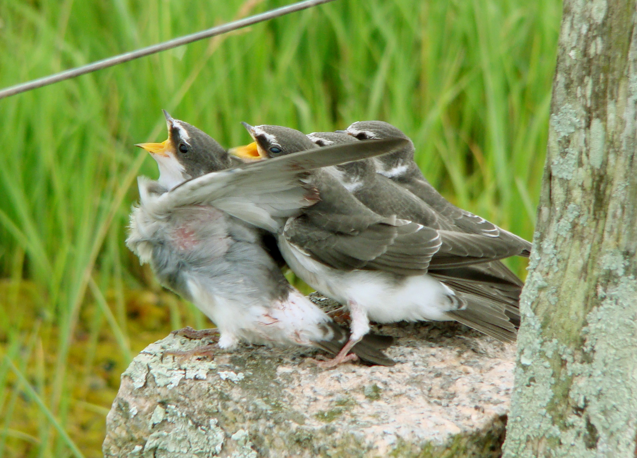 Tachycineta leucorrhoa juveniles photographed in Rio Grande do Sul, Brazil, in November 2009.